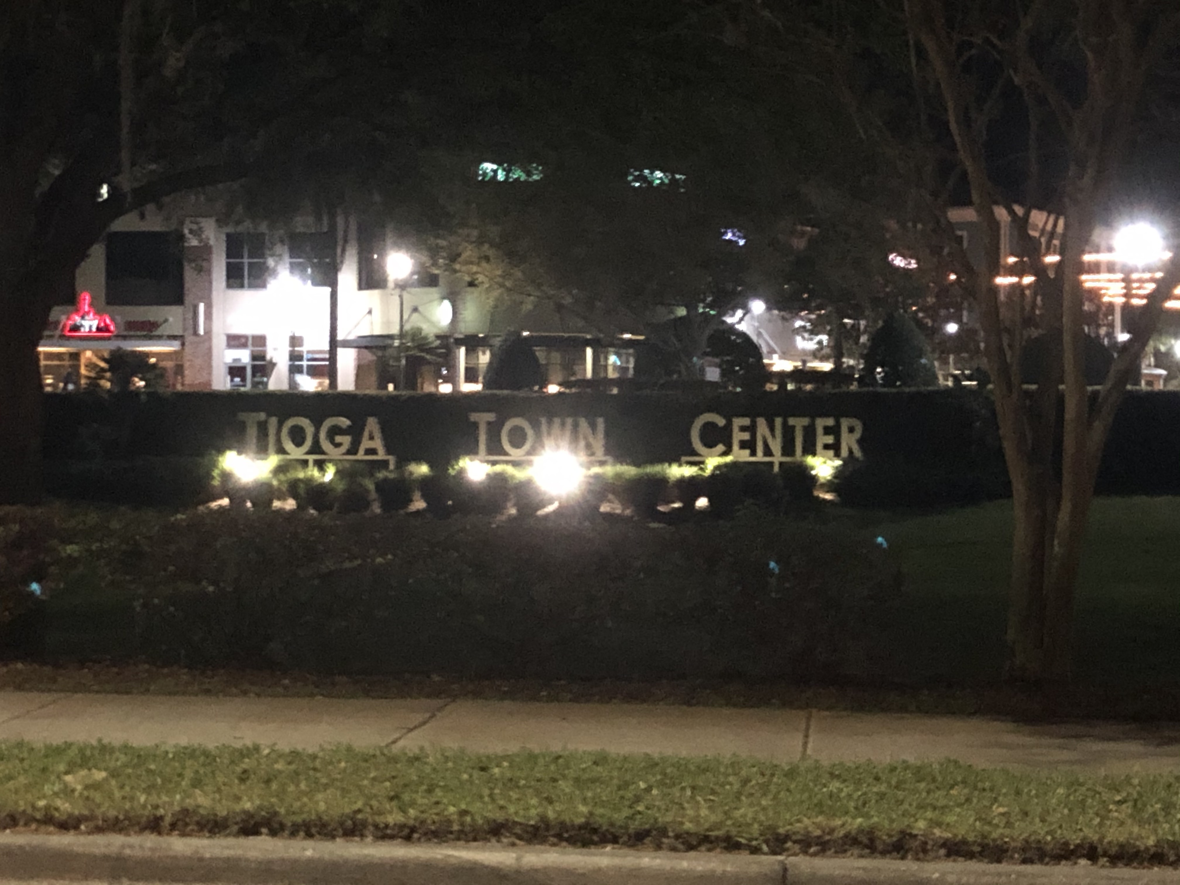 Tioga, Florida